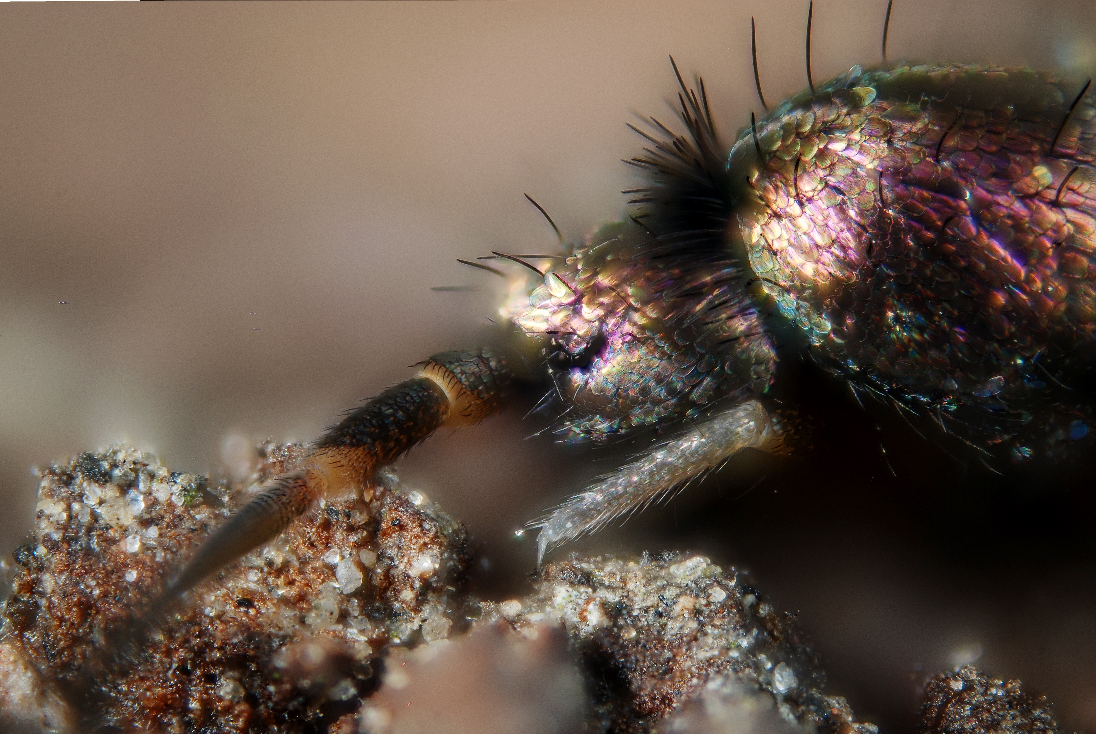 Lateral view of the head of a collembola of the family Tomoceridae (tanks J.J. for ID help !) The little guy was very cooperative but eventually it sprung before the end of the stack (the working distance is shorter than 5 mm)... This species is really beautiful, so I will try to do better shots this winter... The software Enfuse had some problems to merge the pictures (ie transparency problems on the antenna and on the hairs) Technical settings : - focus stack of ~100 images - microscope objective (Nikon achromatic 10x 160/0.25) on bellow